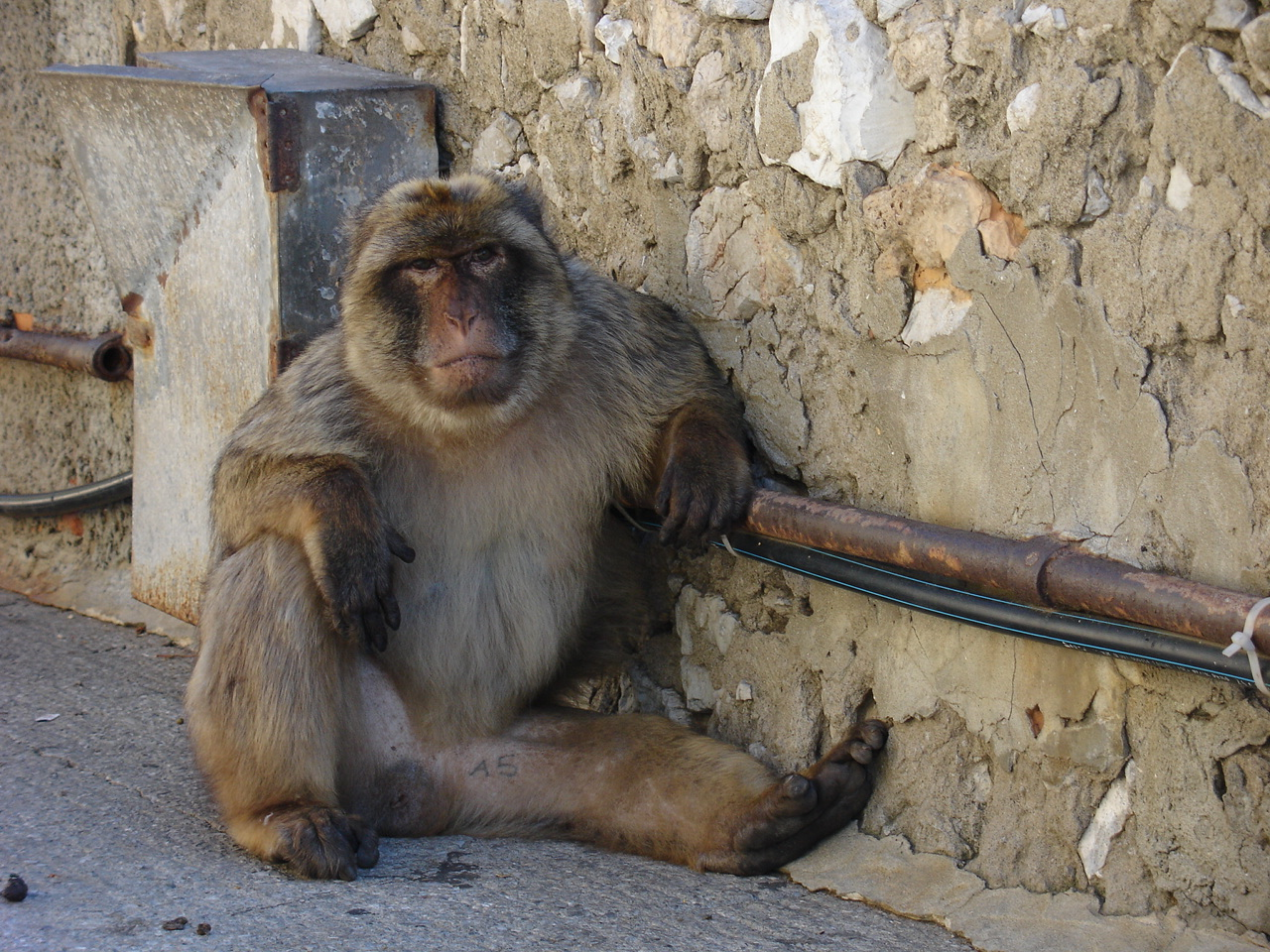 Gibraltar has a Patrone